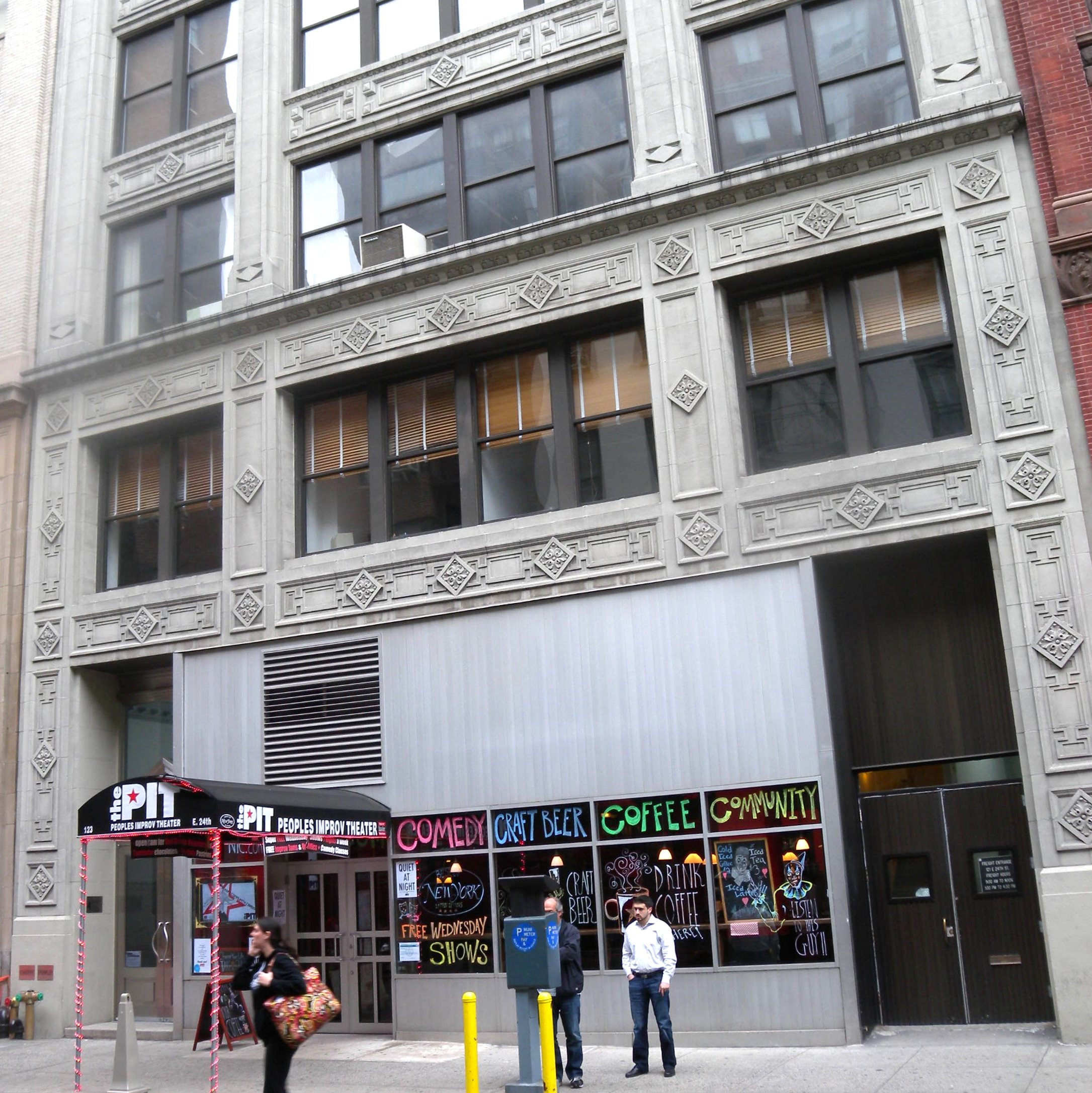 Looking north at PIT Theater on a cloudy afternoon. ZIP 10010.